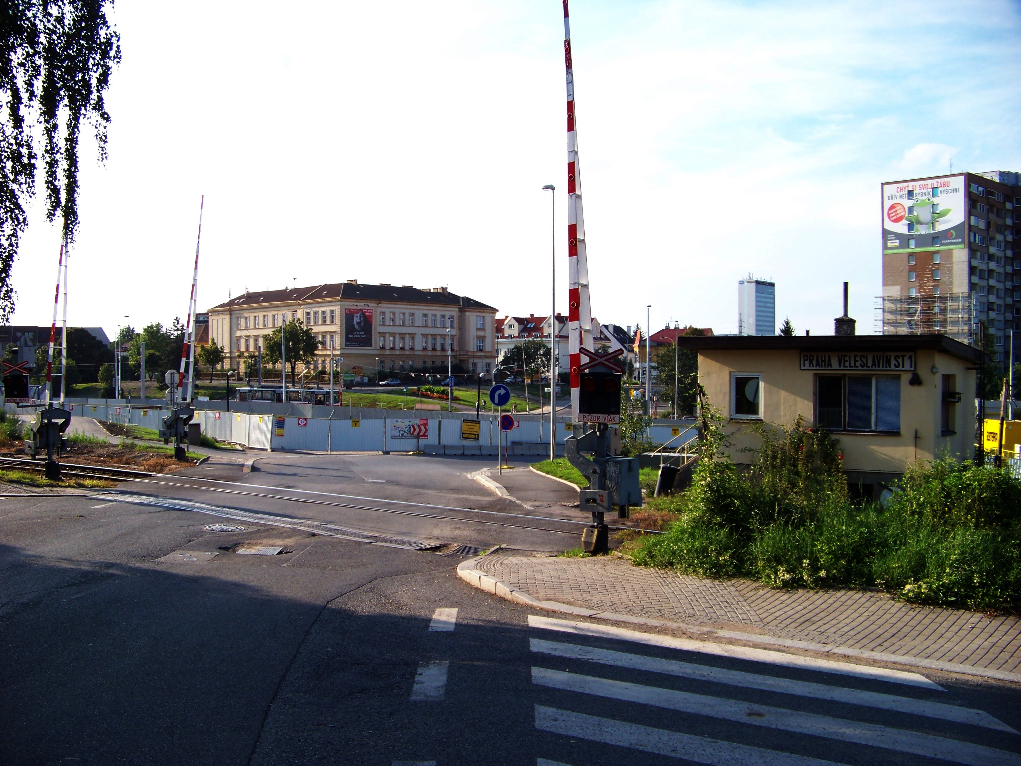 Prague-Veleslavín and Vokovice, the Czech Republic. Veleslavínská street, a level crossing, a view to Vokovice. - OpenStreetMap(Info)